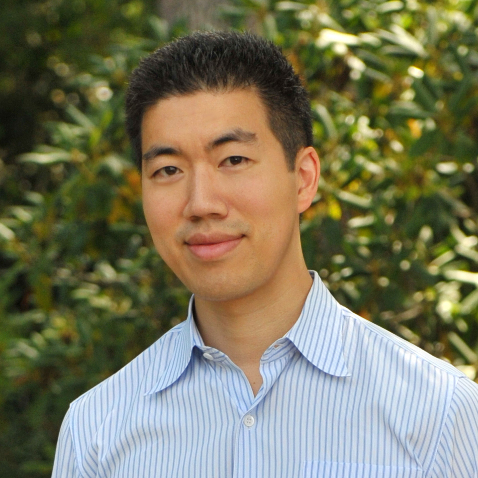 David R. Liu, chemist, 2012 photo